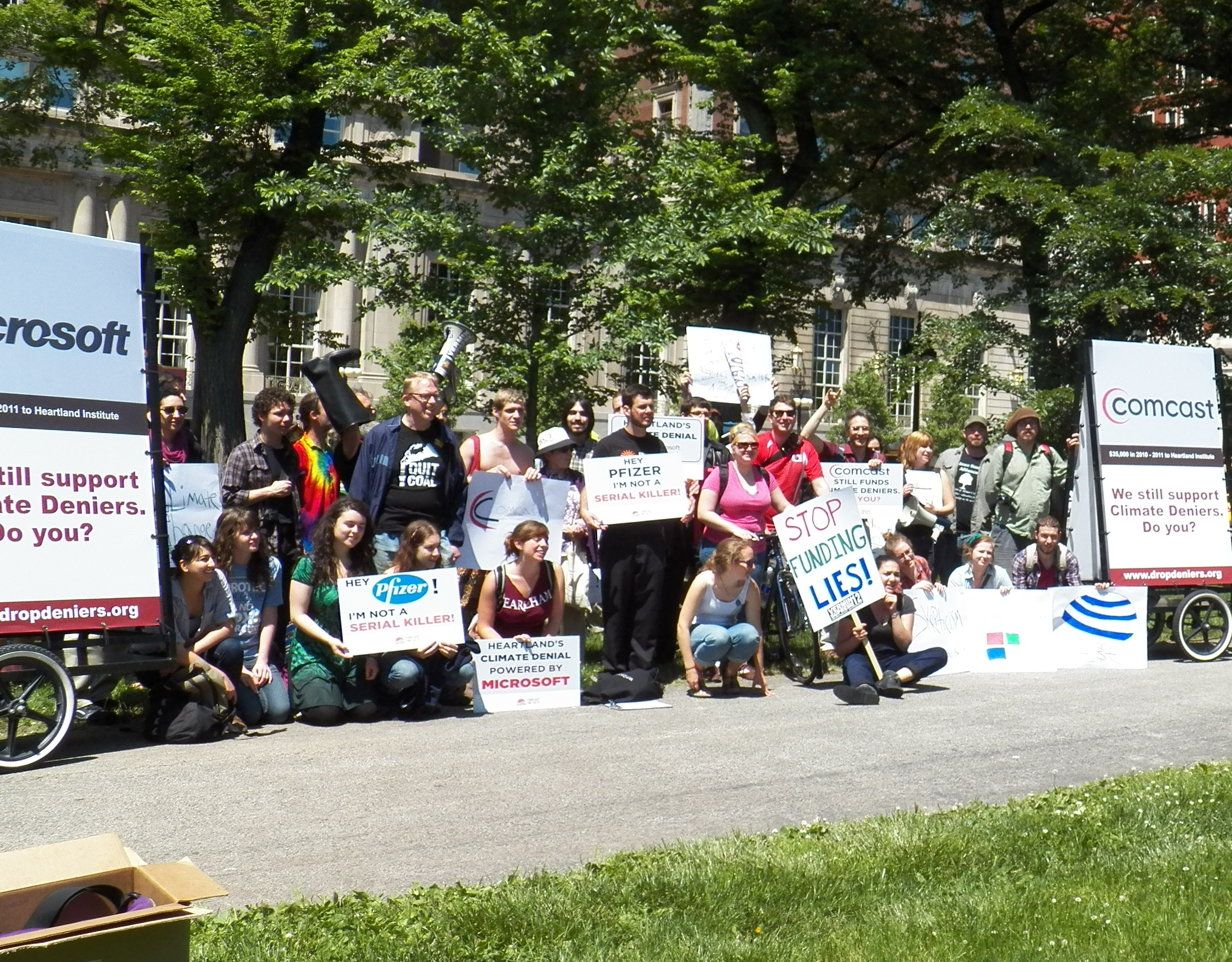 Protesters hold signs alongside pedal-powered billboards denouncing corporate donors to the in Grant Park in Chicago on May 22, 2012. The protest was organized by the SMELT student organization at Shimer College, and coincided with the 7th meeting of Heartland's .